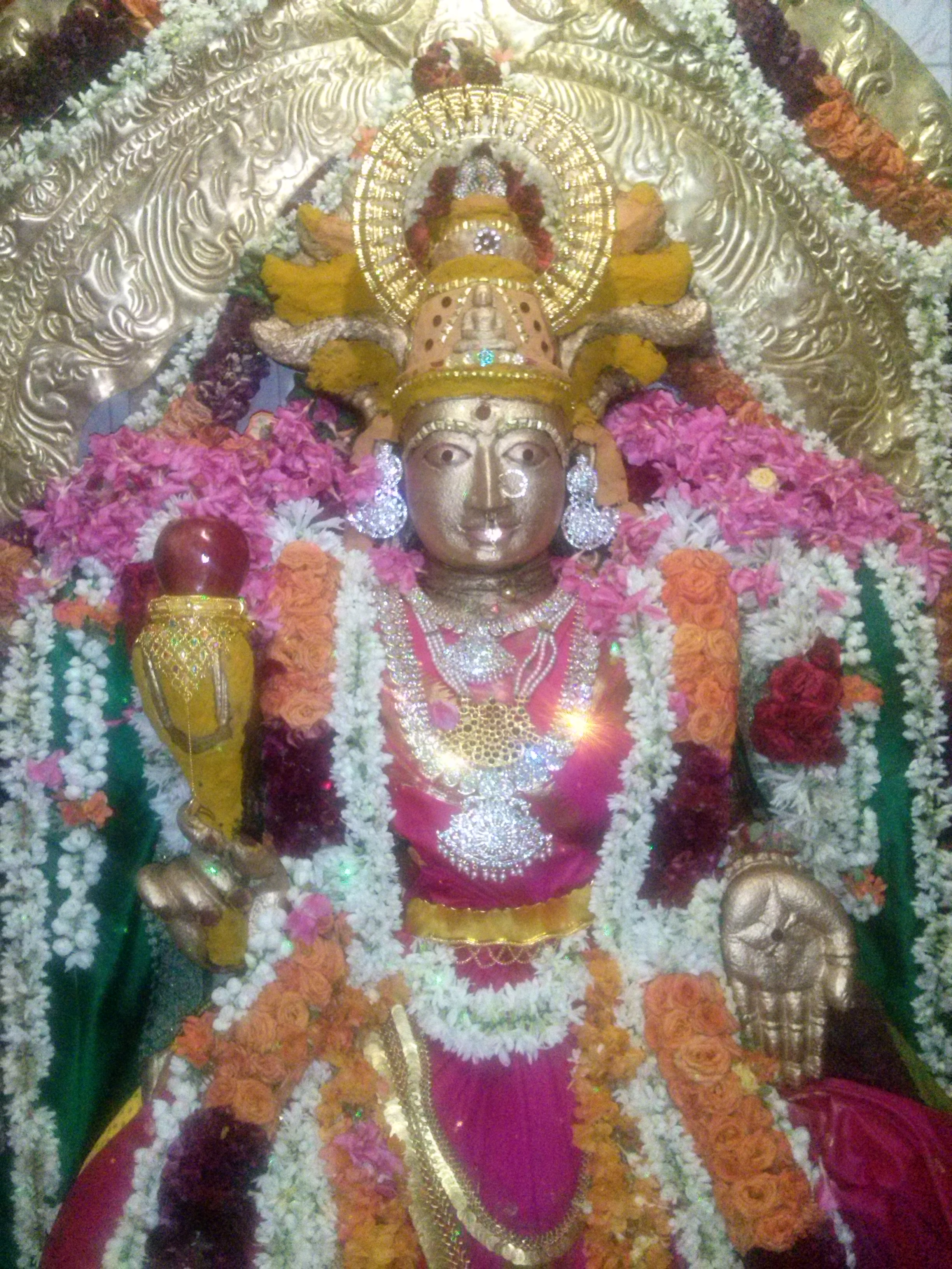 amman